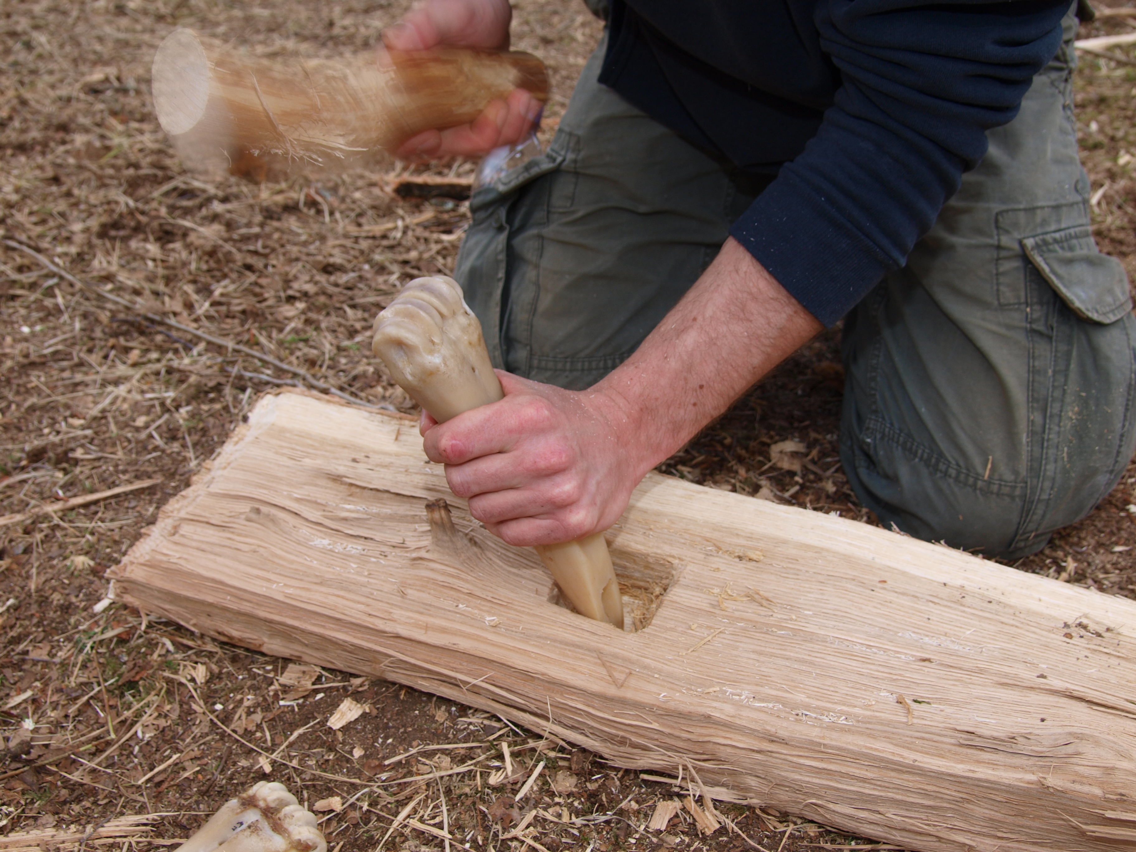 Reconstructed bone chisle in action at at Ergersheim Experiments 2012.